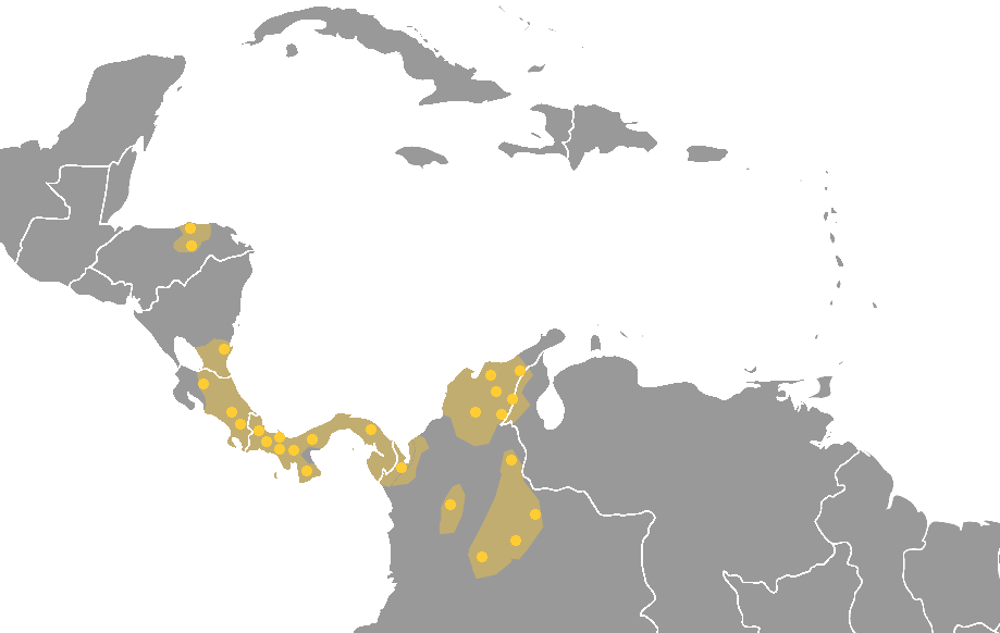 Present locations of chibchan languages and possible past extension in the 16th century